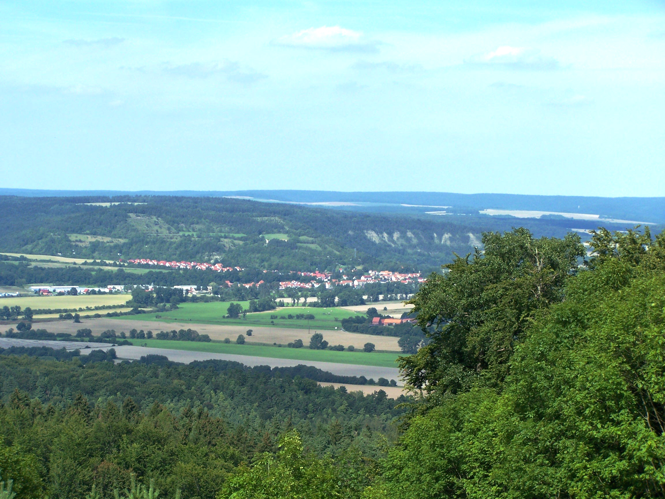 The Werravalley near Creuzburg, panoramaview from the top of the Kielforst.